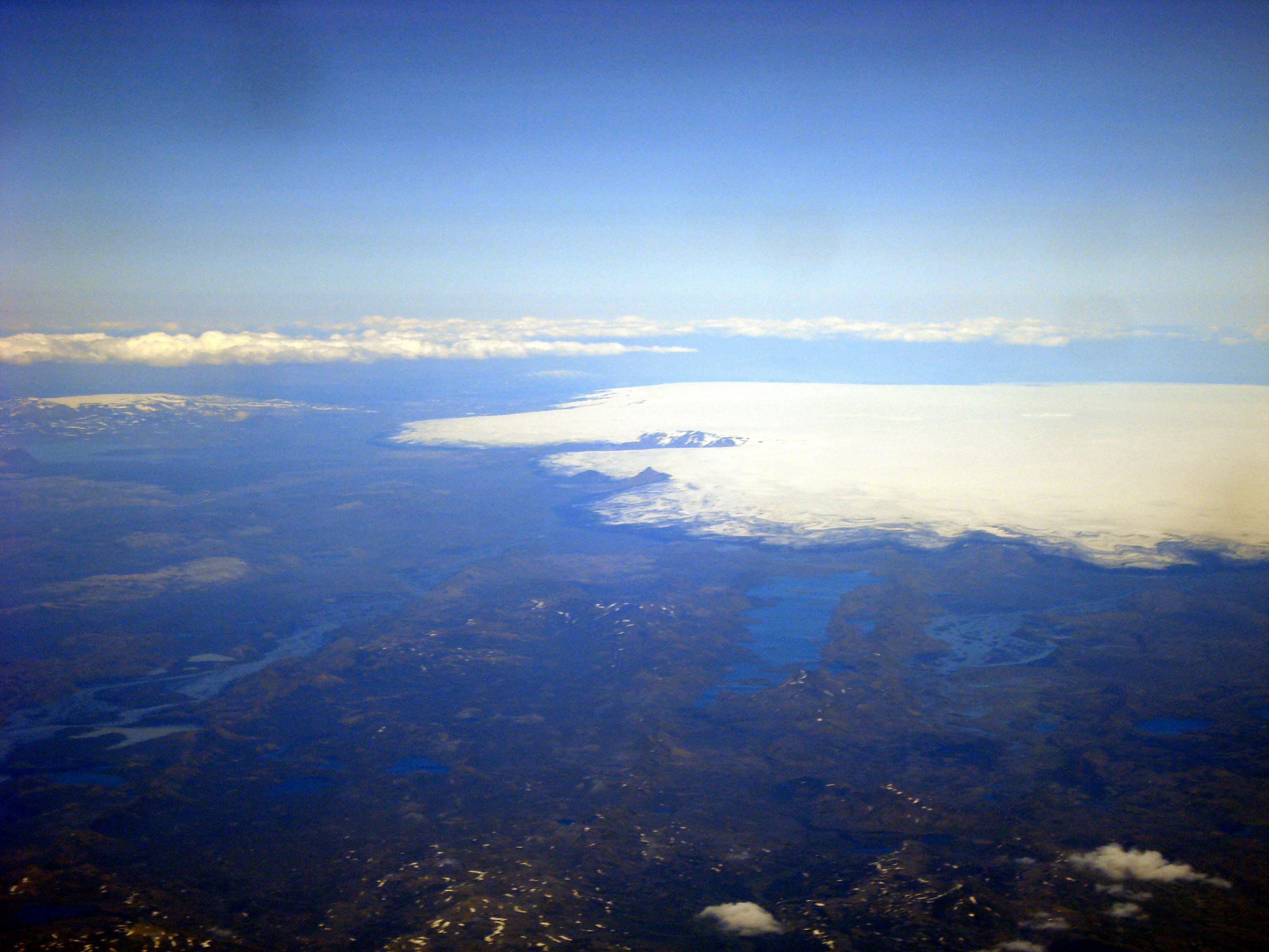 West-Vatnajökull, glacier in Iceland